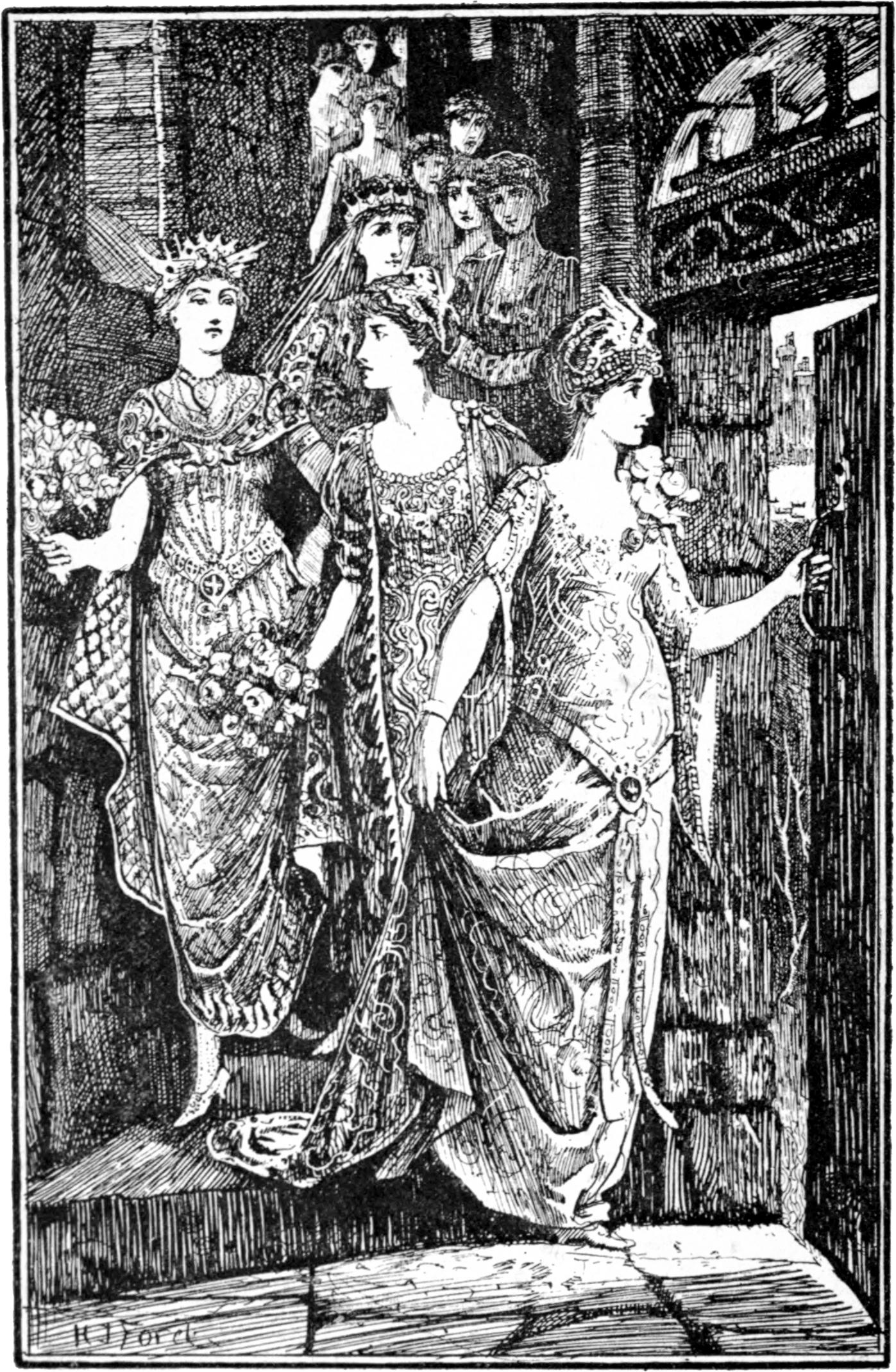 scan of illustration in a book of fairy tales, the removed caption was "THE TWELVE PRINCESSES QUIT THE CASTLE BY THE SECRET STAIRCASE."